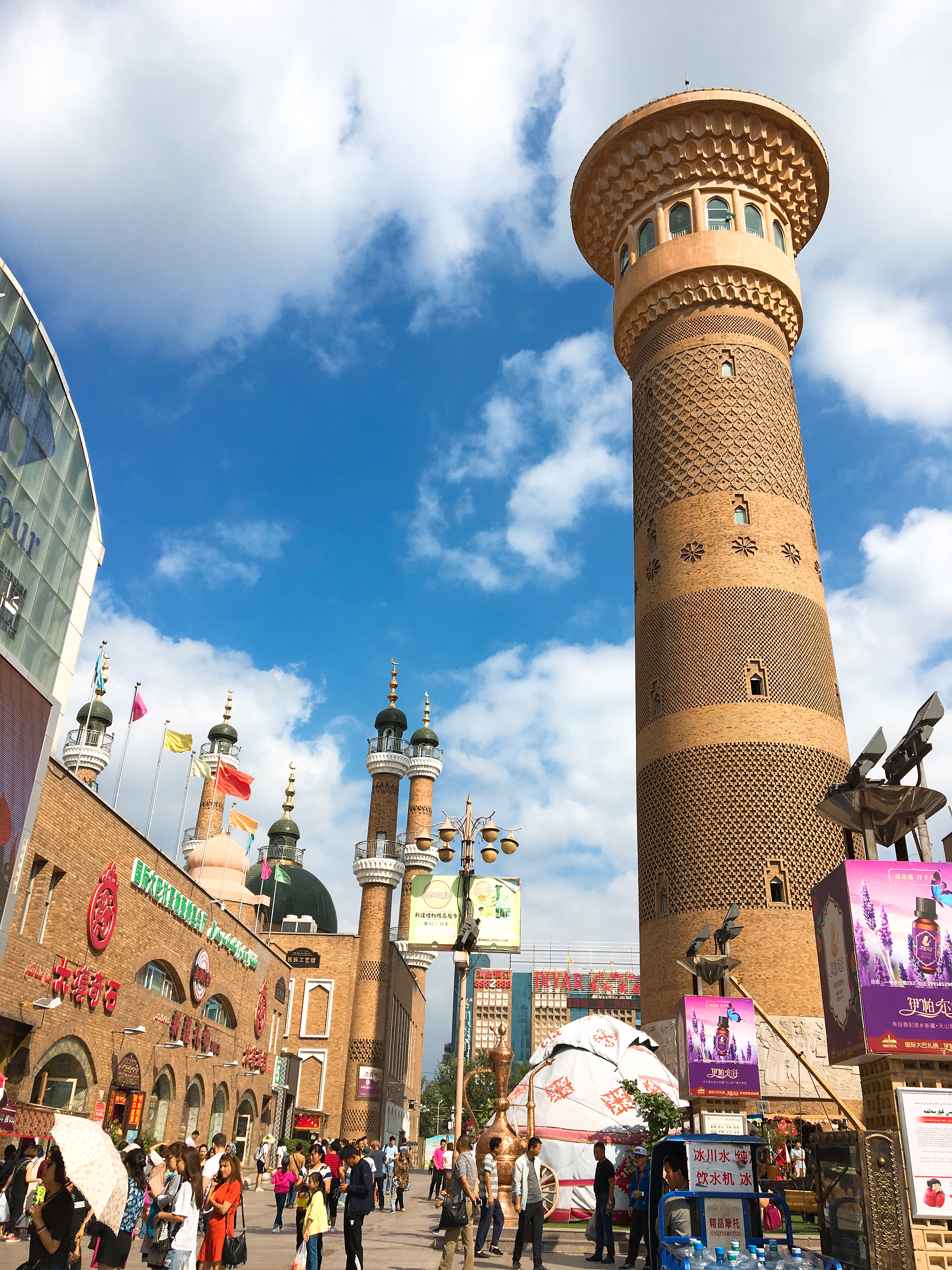 Grand Bazaar (Ürümqi) in daytime